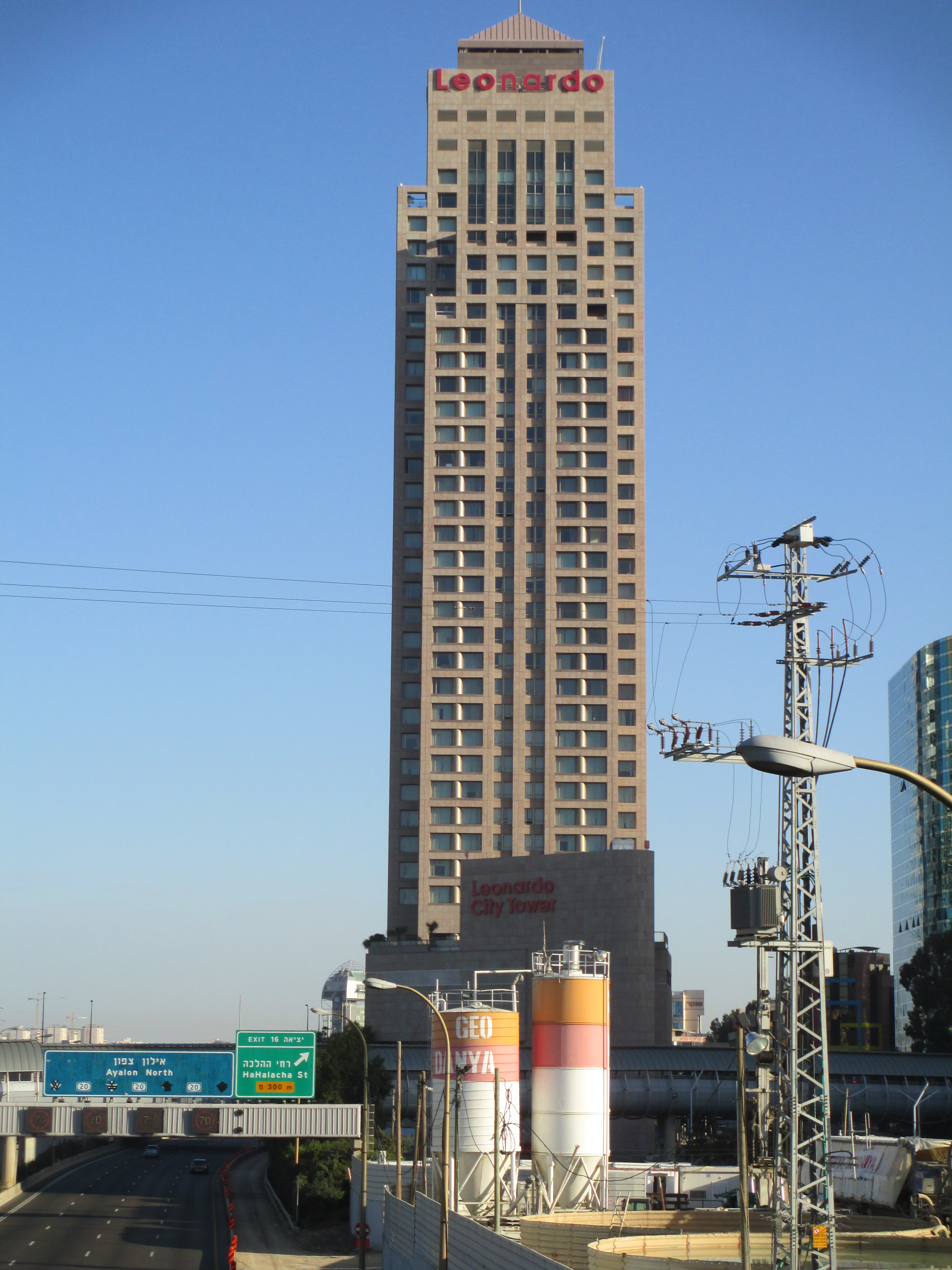 Leonardo City Tower in Ramat Gan